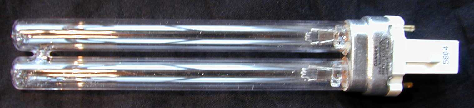 A 9W germicidal ultraviolet lamp in a modern compact-fluorescent form factor, It emits shortwave UV-C rays, and is used to sterilize laboratory equipment and in water treatment.